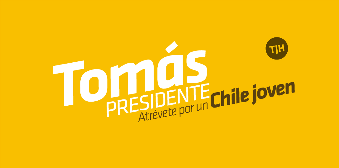 Campaign slogan of candidate for president of Chile, Tomás Jocelyn-Holt.